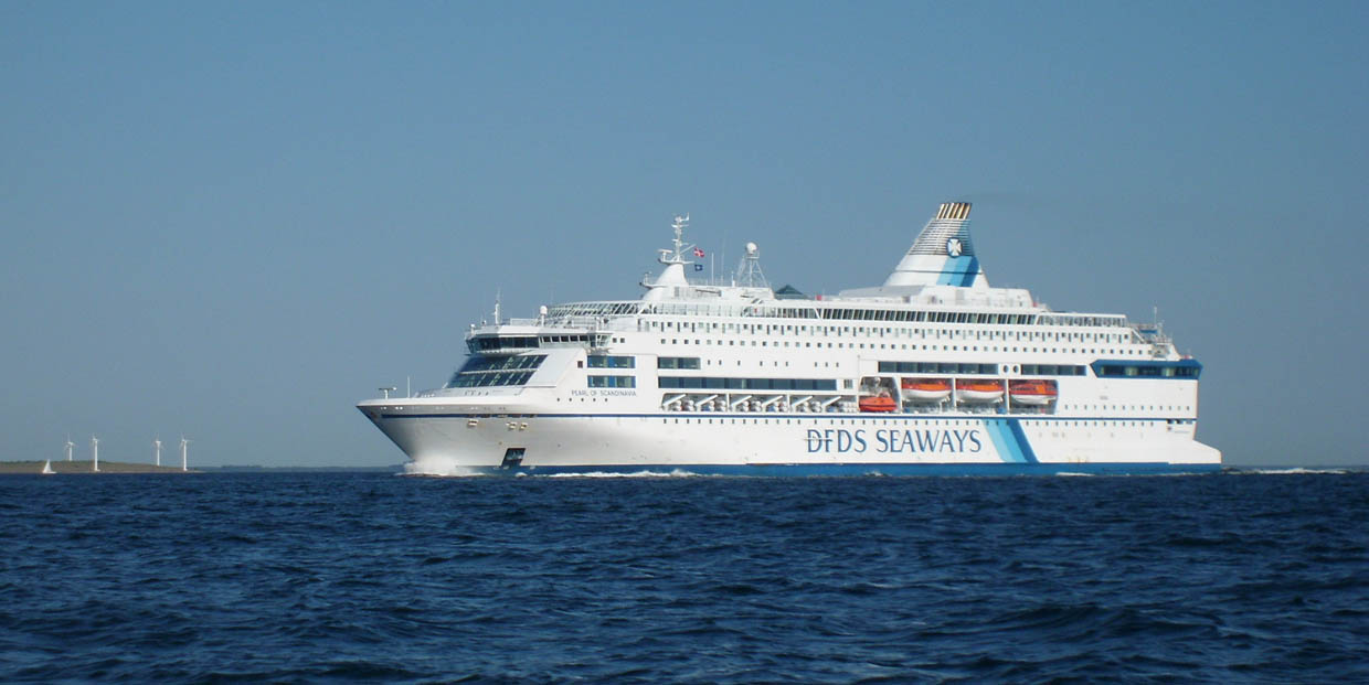 Passenger ship "Pearl of Scandinavia" in the Sound, Denmark